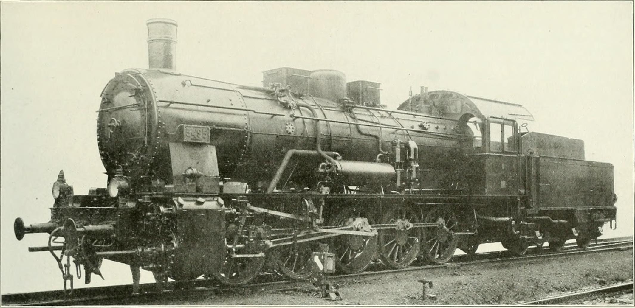 Title: Railway mechanical engineer Year: 1916 (1910s) Authors: Subjects: Railroad engineering Engineering Railroads Railroad cars Publisher: New York, N.Y. : Simmons-Boardman Pub. Co Text Appearing Before Image: fact that there is a much better under-standing among all concerned in the movement of trains asto the actual tonnage handled by each train. Under the arrangement outlined by Mr. Mounce it mayhapjien that the adjusted tonnage where principally emptycars are being handled is 500 tons in excess of the actualtonnage. If this adju.sted tonnage were corrected on the basisof the average weight of cars handled, which in this casewould take into consideration the preponderance of emptycars moved, it would proliably not vary more than one hun-dred tons from the actual tonnage. Practical men knowthe great value of having a .system that does not confusethose to whom its execution is entrusted. The adjusted ton-nage rating should conform to this rule and wliile retainingalAhe advantages to be .secured from the equalization of carresistances must be exceedingly simple in its application andshould not involve results which are not clearly understoodby all concerned in its application. L. Greenleaf. Text Appearing After Image: Sufcrhcatcr Freight Locomotiies of the C-IO Type for the Prnssian-IIcssiuK Ka^.i^u^.. The First Locomotive Built by Krupps. The Railway Situation in Germany Shortage of Locomotives the LimitingFactor. Output of Labor Greatly Decreased BY ROBERT E. THAYER European Editor of the Railway Mechanical Engineer THE aftermath of the war in Germany has been muchmere severe than perhaps was anticipated at the endof the war. The new government, formed after therevolution, was made up of men of little experience in thegoverning of a nation the size of Germany and as a resultthere has been a constant state of unrest, dissatisfaction andno co-ordination of effort. \\ith the bolshevistic seed fairlywell germinated, it was doubly hard to get the nation back on